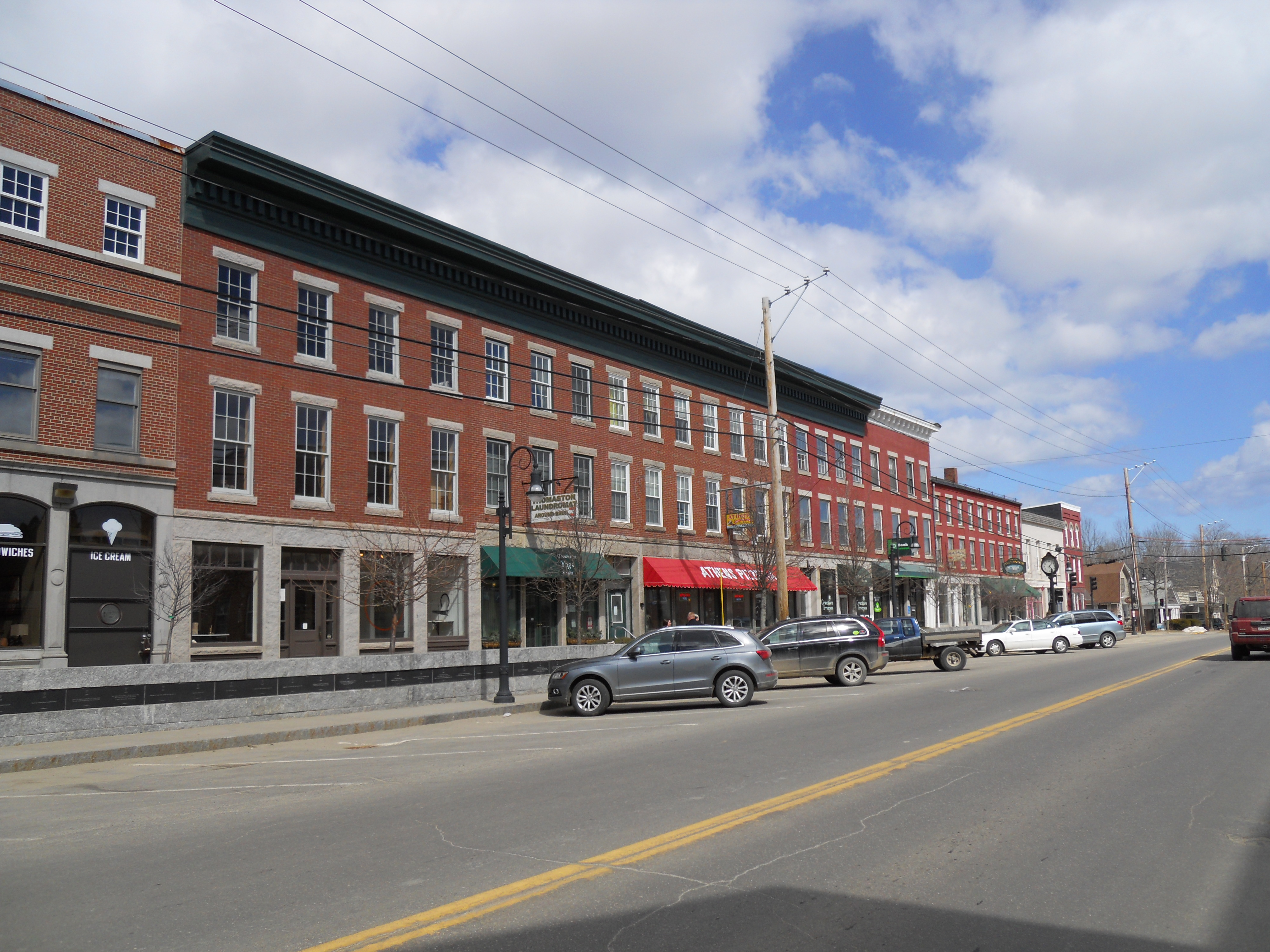 A view of downtown Thomaston, Maine as seen on March 26, 2013.